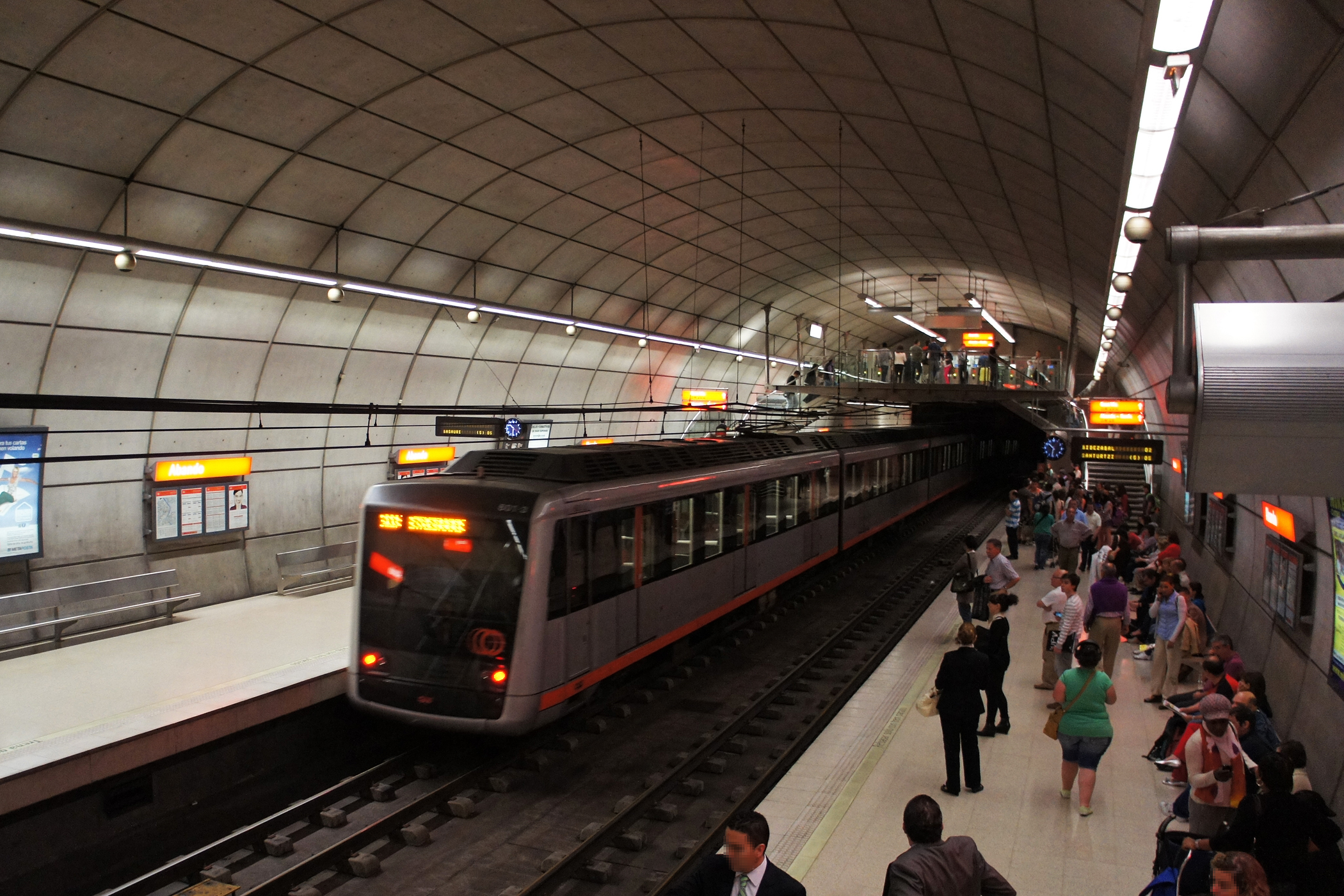 Abando metro station, Bilbao Metro, Basque Country, Spain